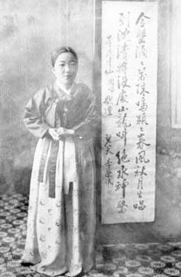 Yi Hwajungseon (1898-1943) pansori master singer